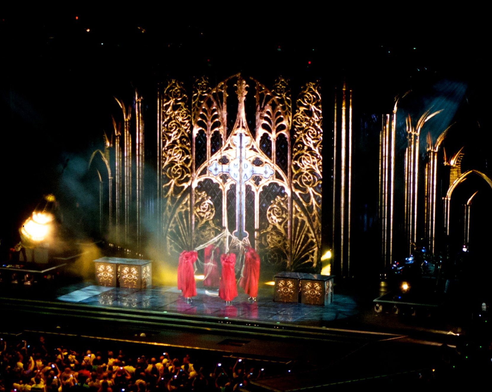 Girl Gone Wild beginning stage